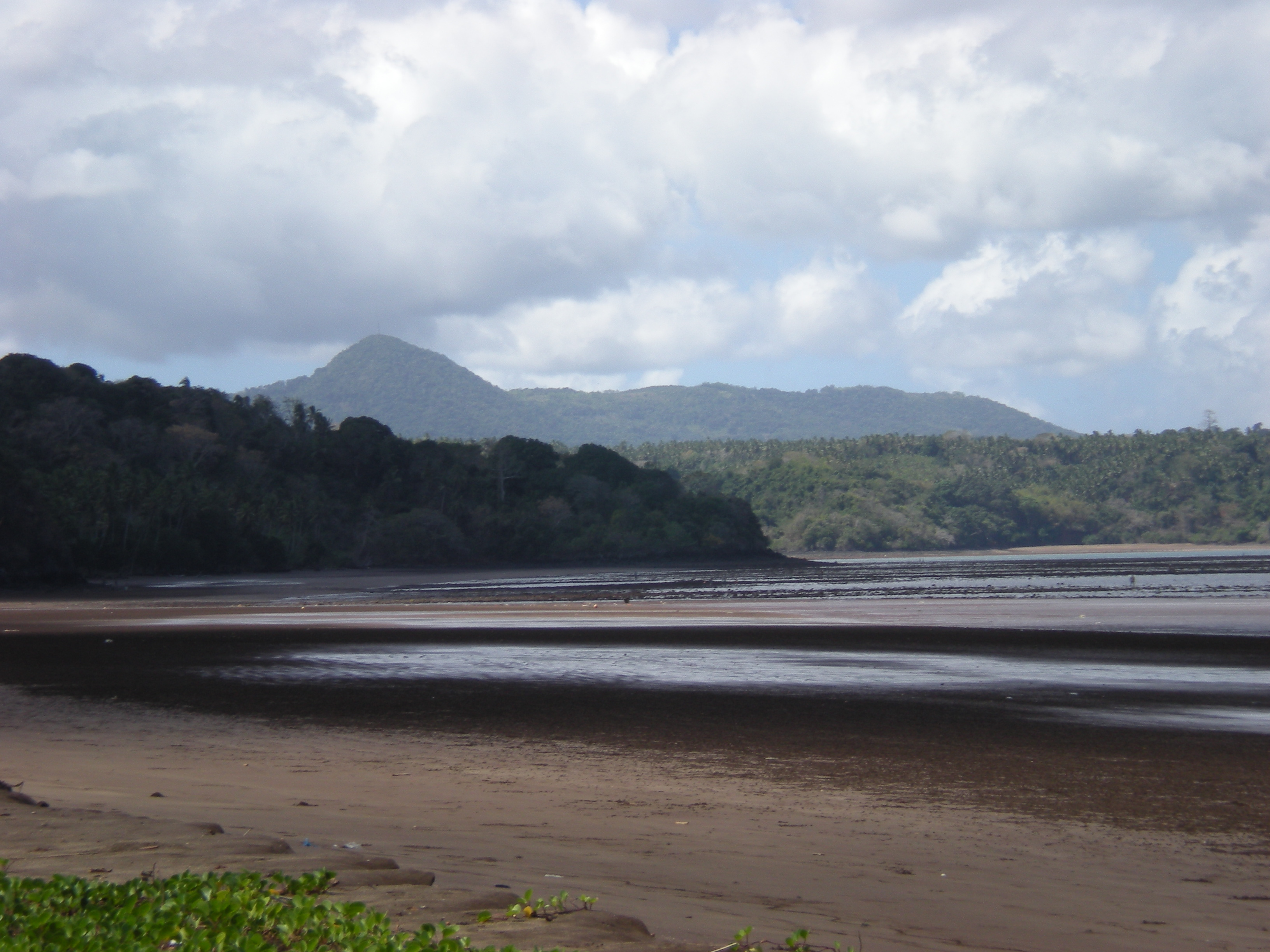 Soulou beach in Mayotte